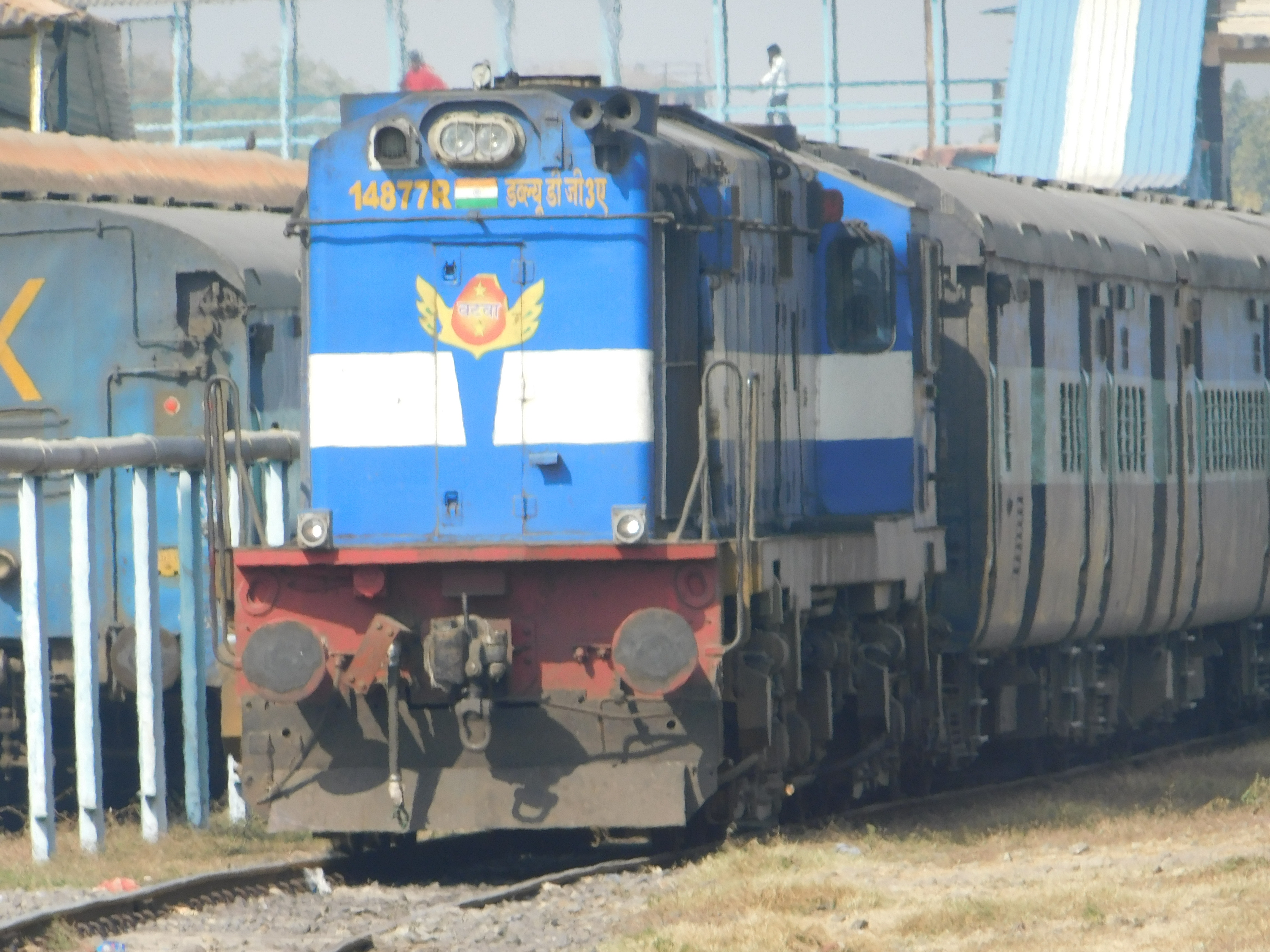 WDM3A VATVA shed at Rajkot Railway yard